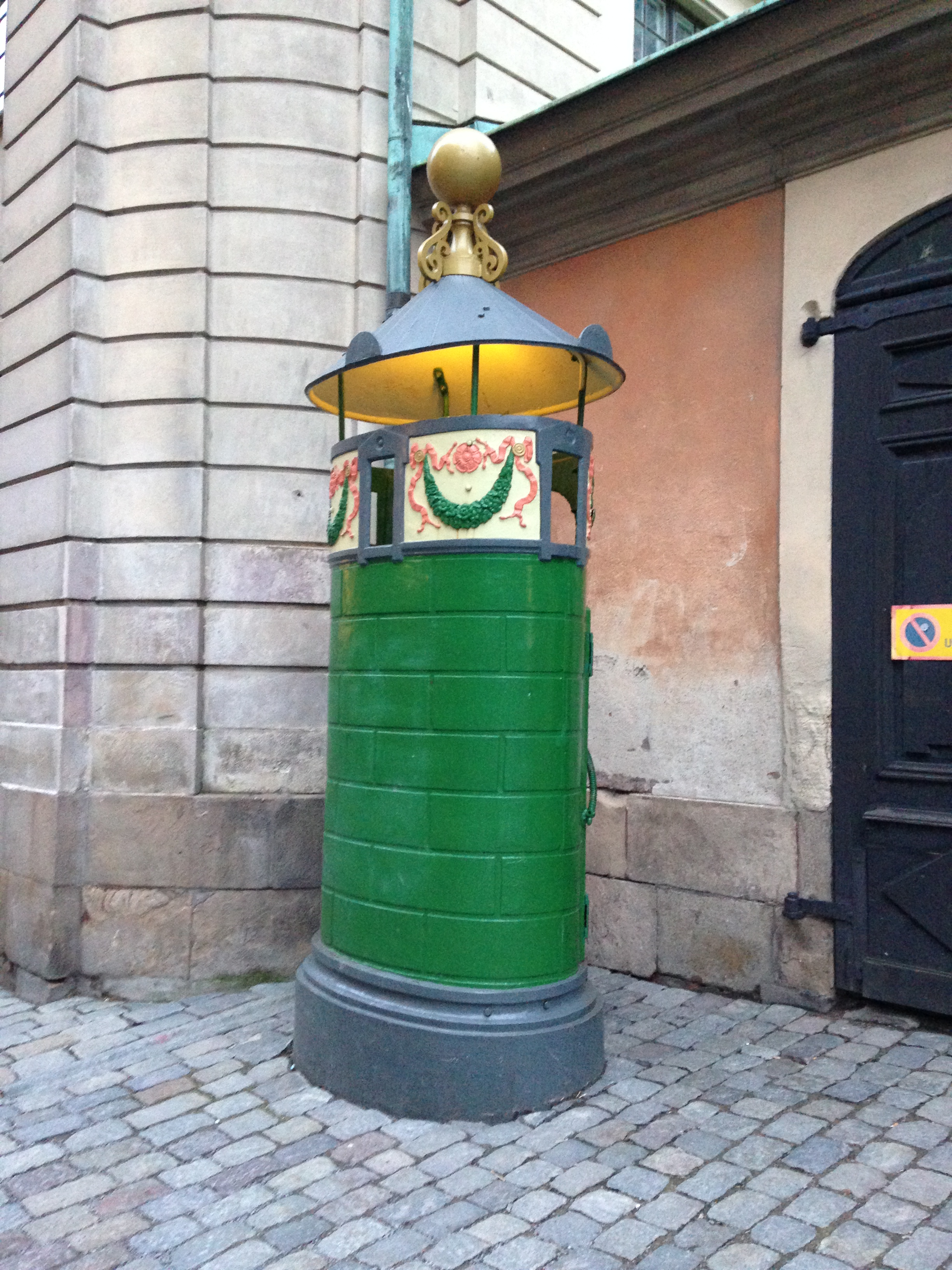 A urinal in Gamla Stan, Stockholm, Sweden, 2014